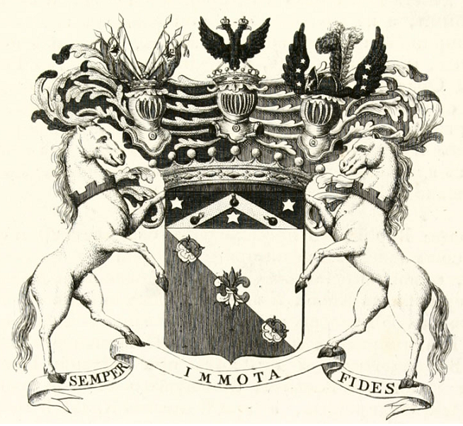 Coat of arms of the Counts of Vorontsov family.